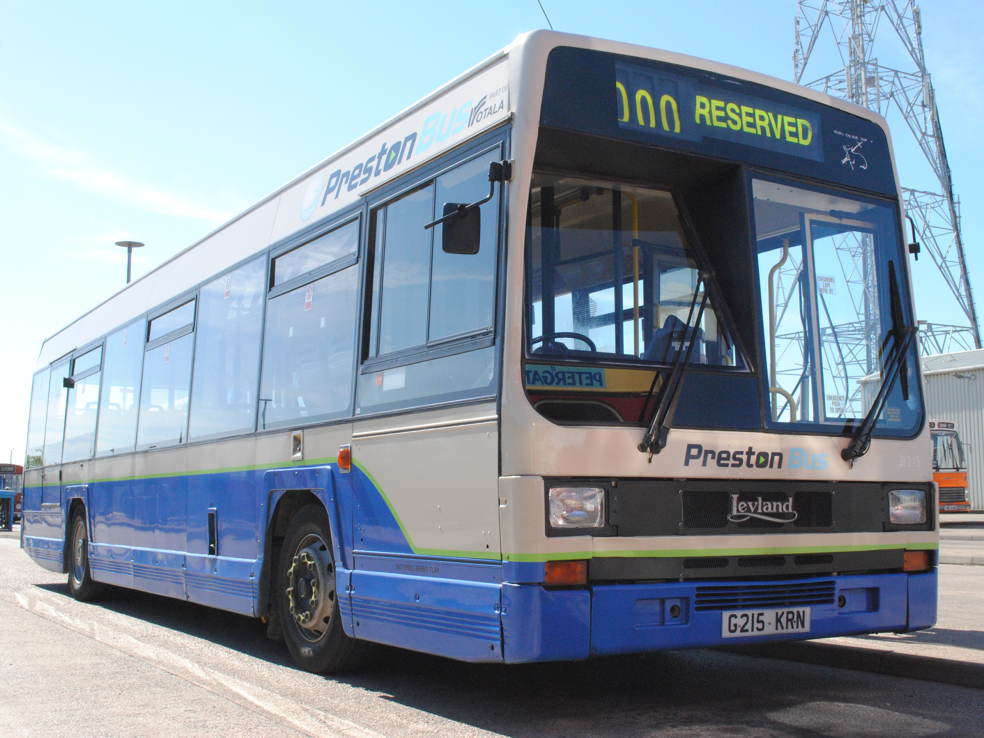 Leyland Lynx. seen here in Stagecoach Cumbria & North Lancashire Open Day at Morecambe White Lund Estate bus depot